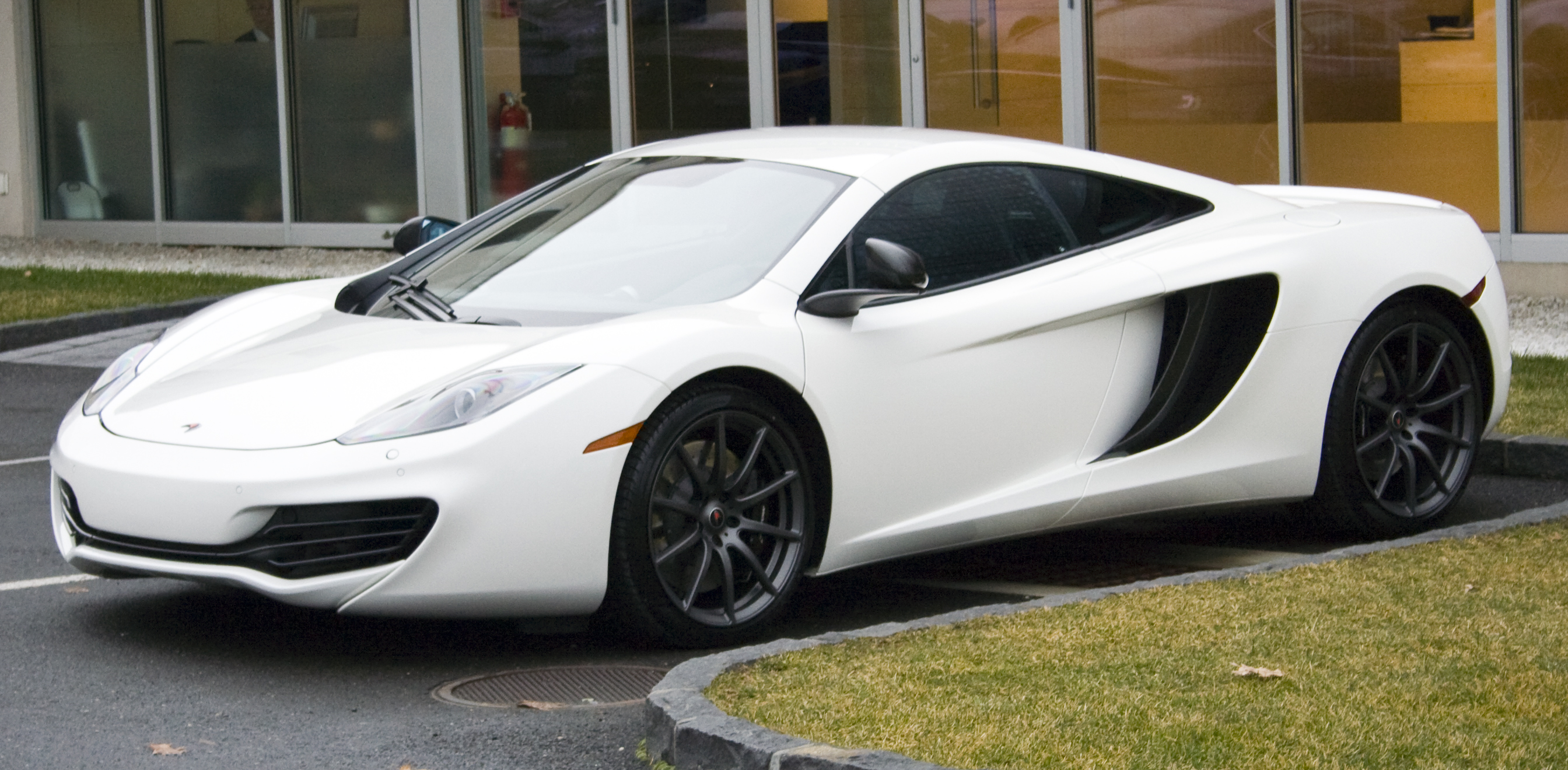 McLaren MP4-12C for the US market, in Greenwich, CT